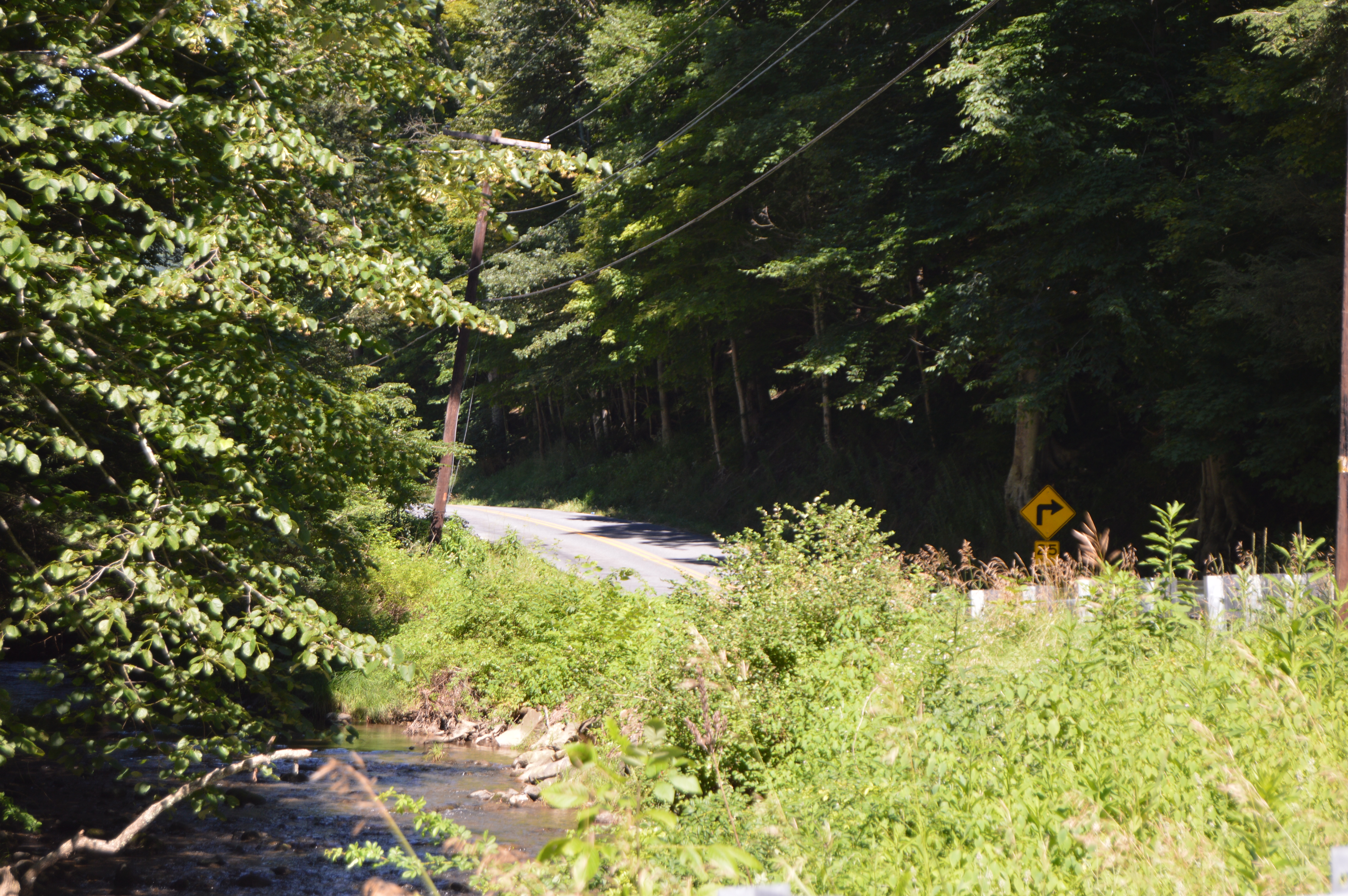 Looking west on Pennsylvania Route 326 from the Town Creek Road intersection, at Black Valley Gap, in Southampton Township, Bedford County, Pennsylvania, United States. Black Valley Branch is at left.